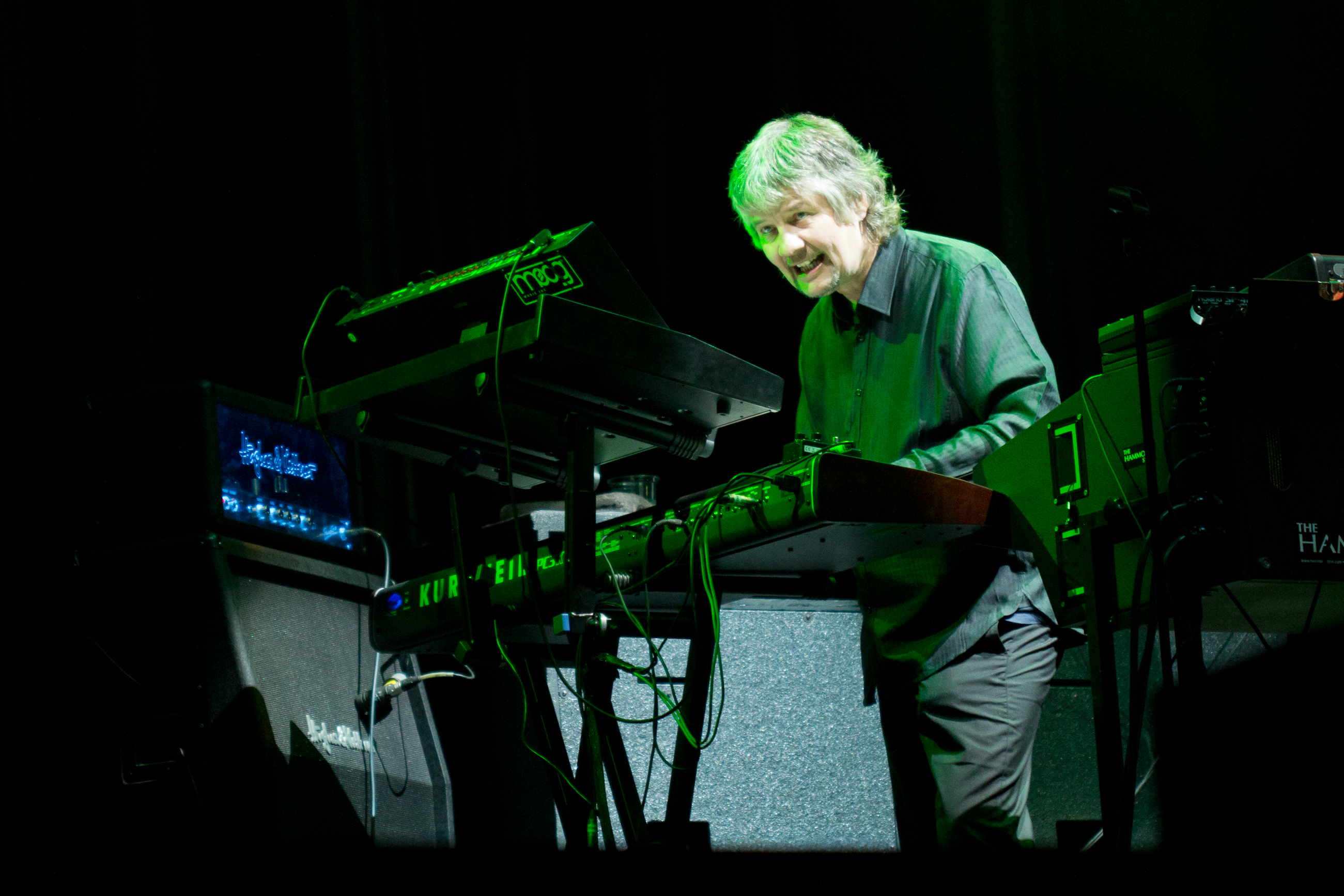 Deep Purple performing at Músicos en la naturaleza 2013 in Hoyos del Espino, Ávila, Spain.